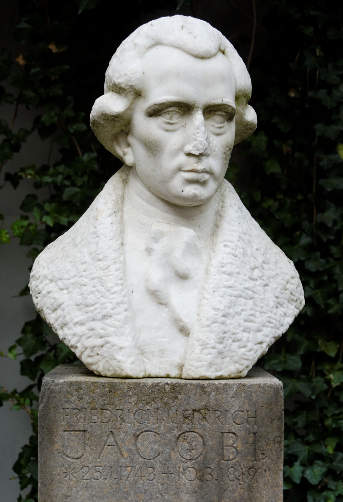 Bust for Friedrich Heinrich Jacobi in Düsseldorf-Pempelfort, Germany